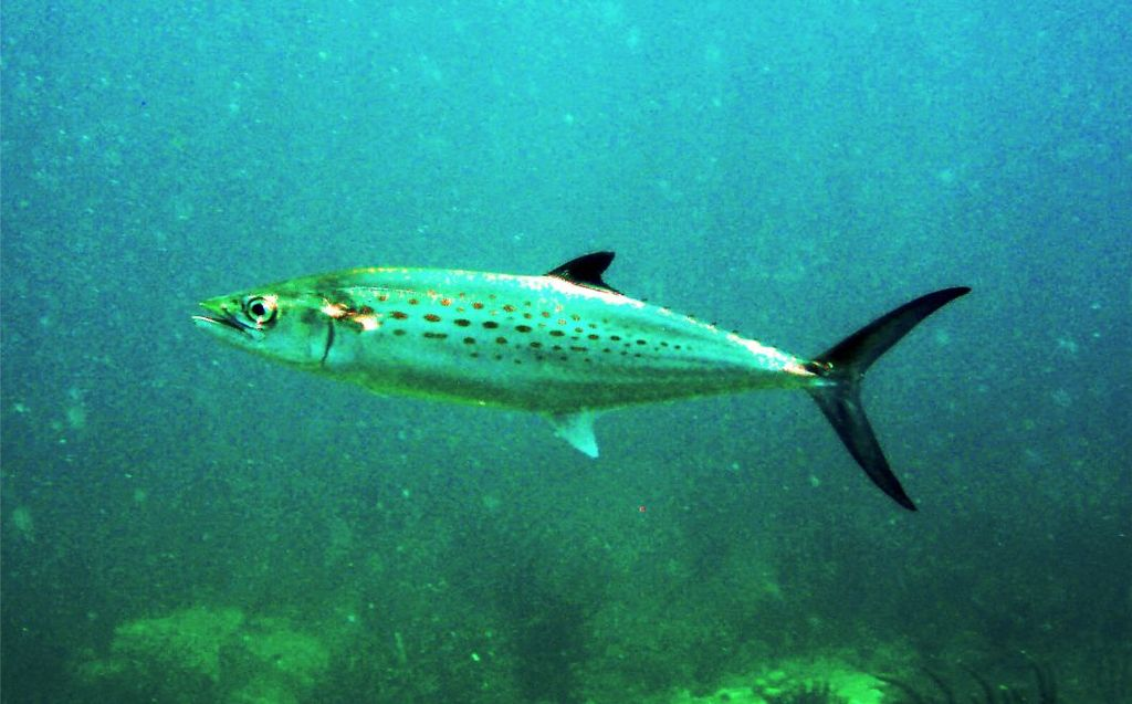 Scomberomorus maculatus in Madagascar Reef, Campeche Bank, Mexico